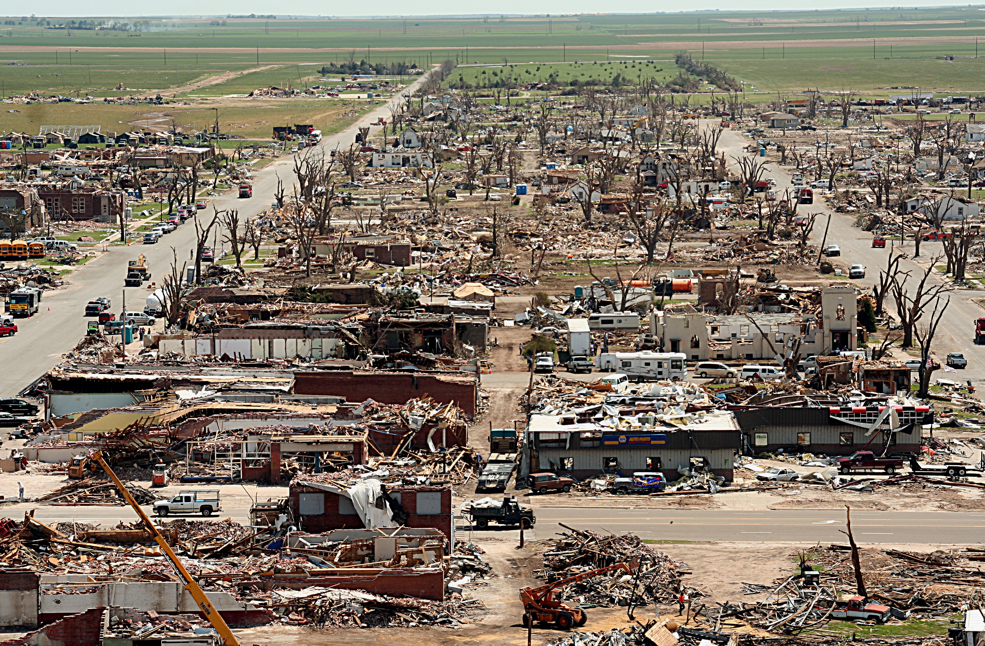 Greensburg, KS May 16, 2007 - The center of town twelve days after it was hit by an F5 tornado with 200 mph (approx 321 km/h) winds. Debris removal is moving at a record pace, but reconstruction will likely take years. Photo by Greg Henshall / FEMA